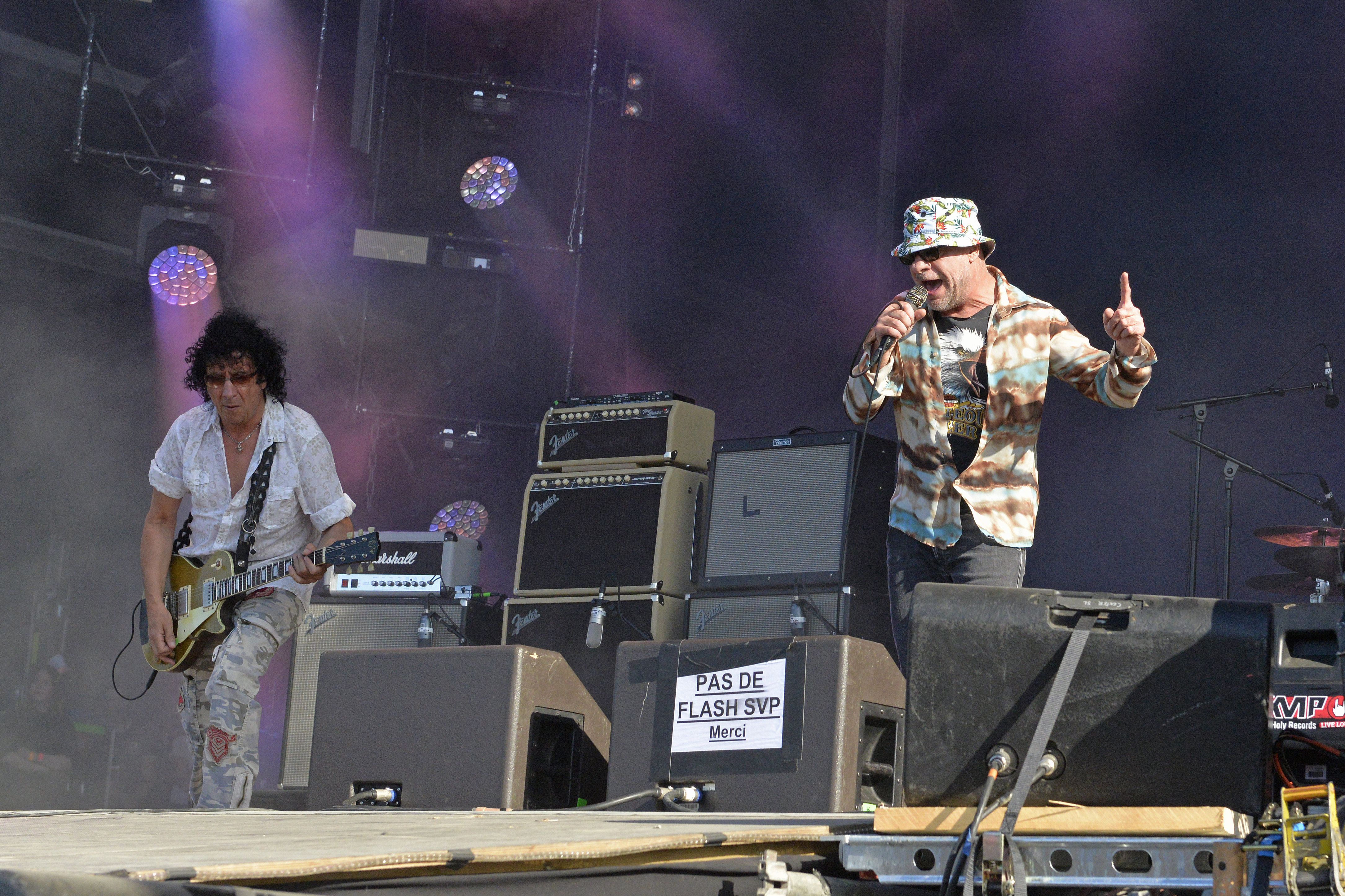 Trust show at 2017 Hellfest, France.